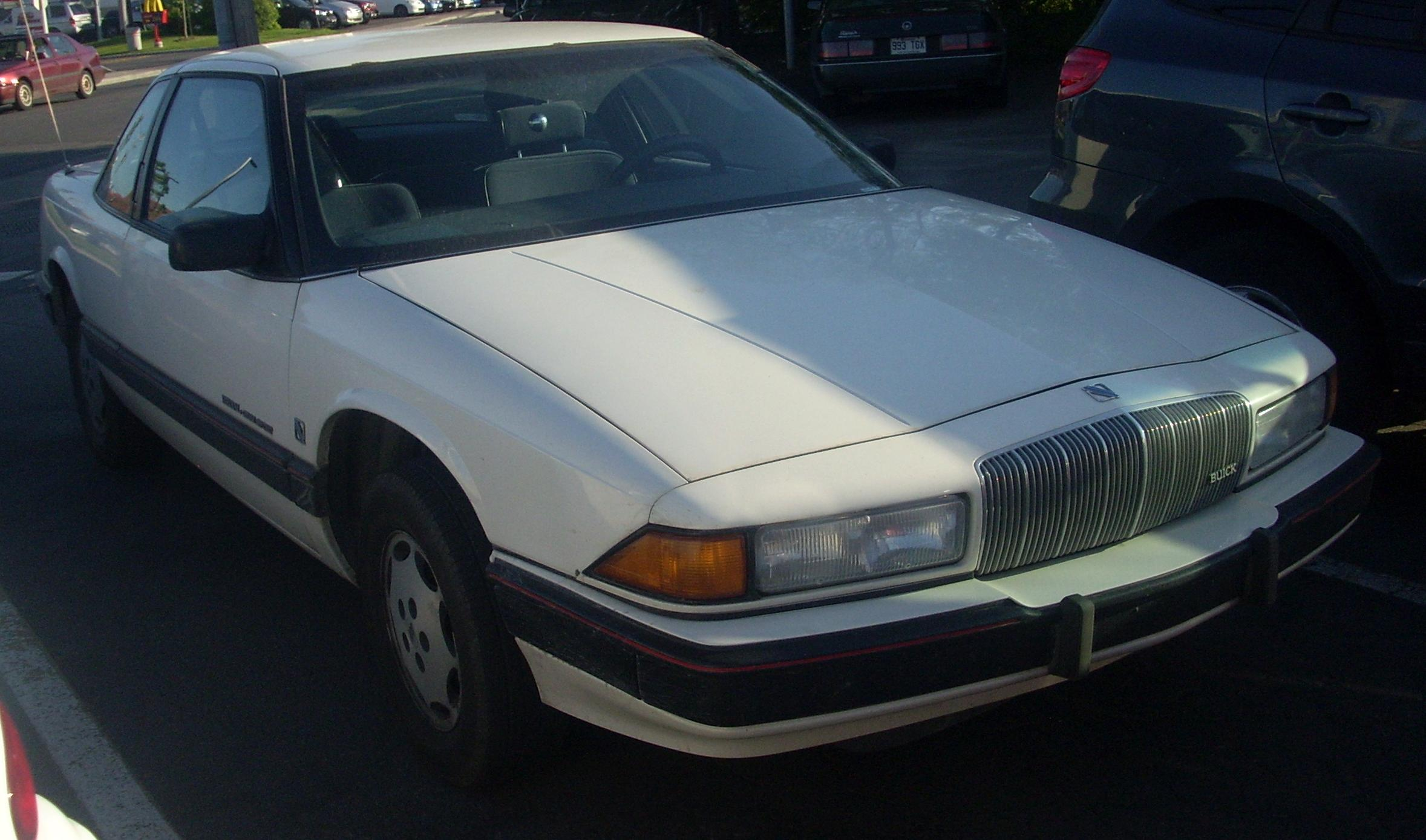 1988-1992 Buick Regal photographed in Montreal, Quebec, Canada at Gibeau Orange Julep.